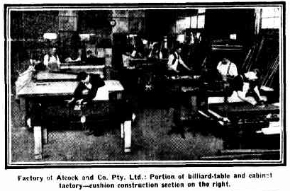 Factory of Alcock's & Co.: Portion of billiard-table and cabinet factory, cushion construction section on the right.